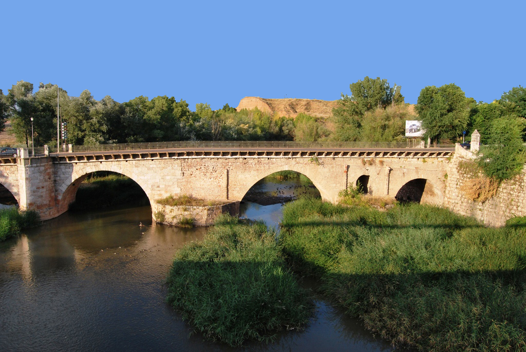 Andalusian bridge over Henares River for Guadalajara, Spain.